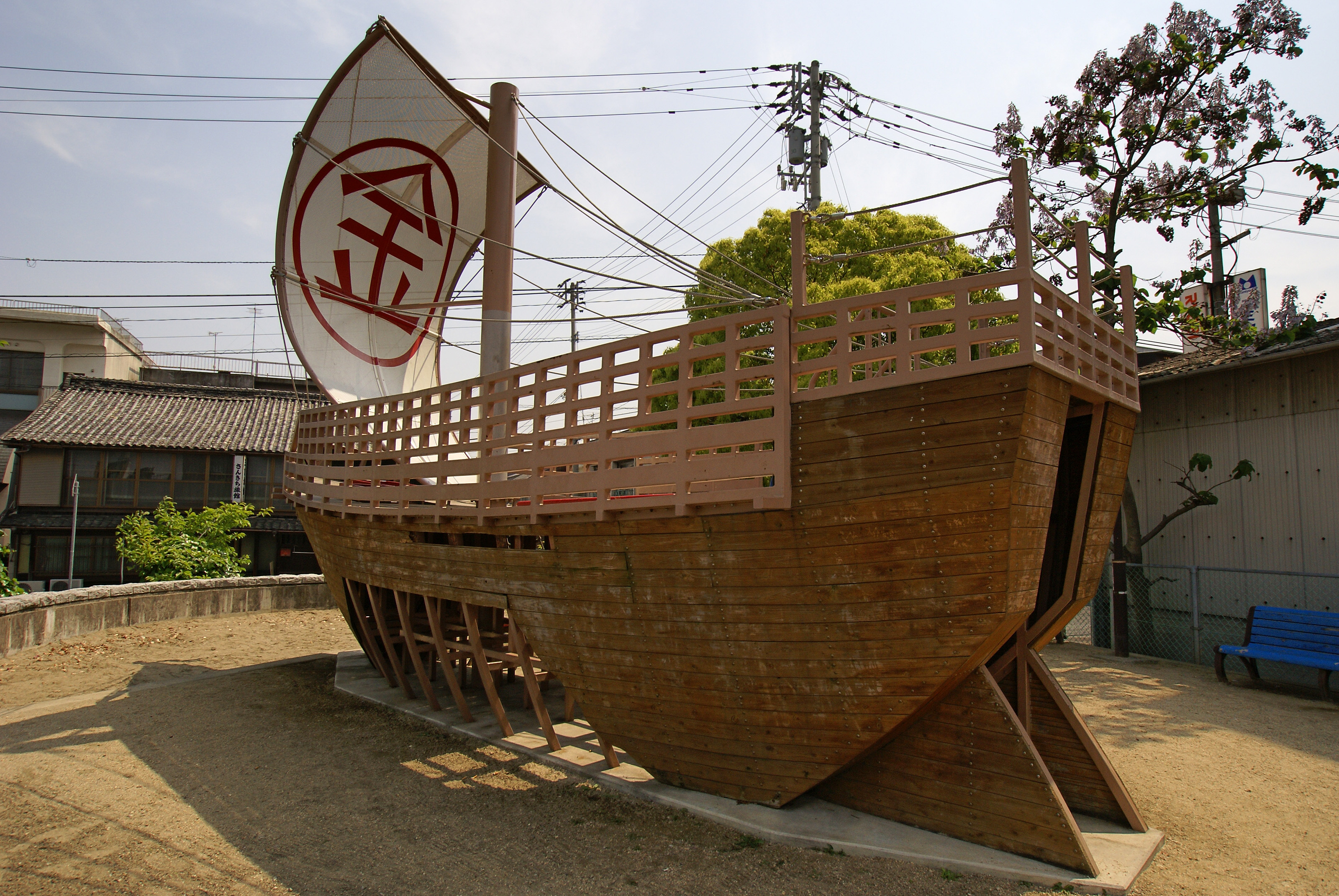 Minato Park in Marugame, Kagawa prefecture, Japan